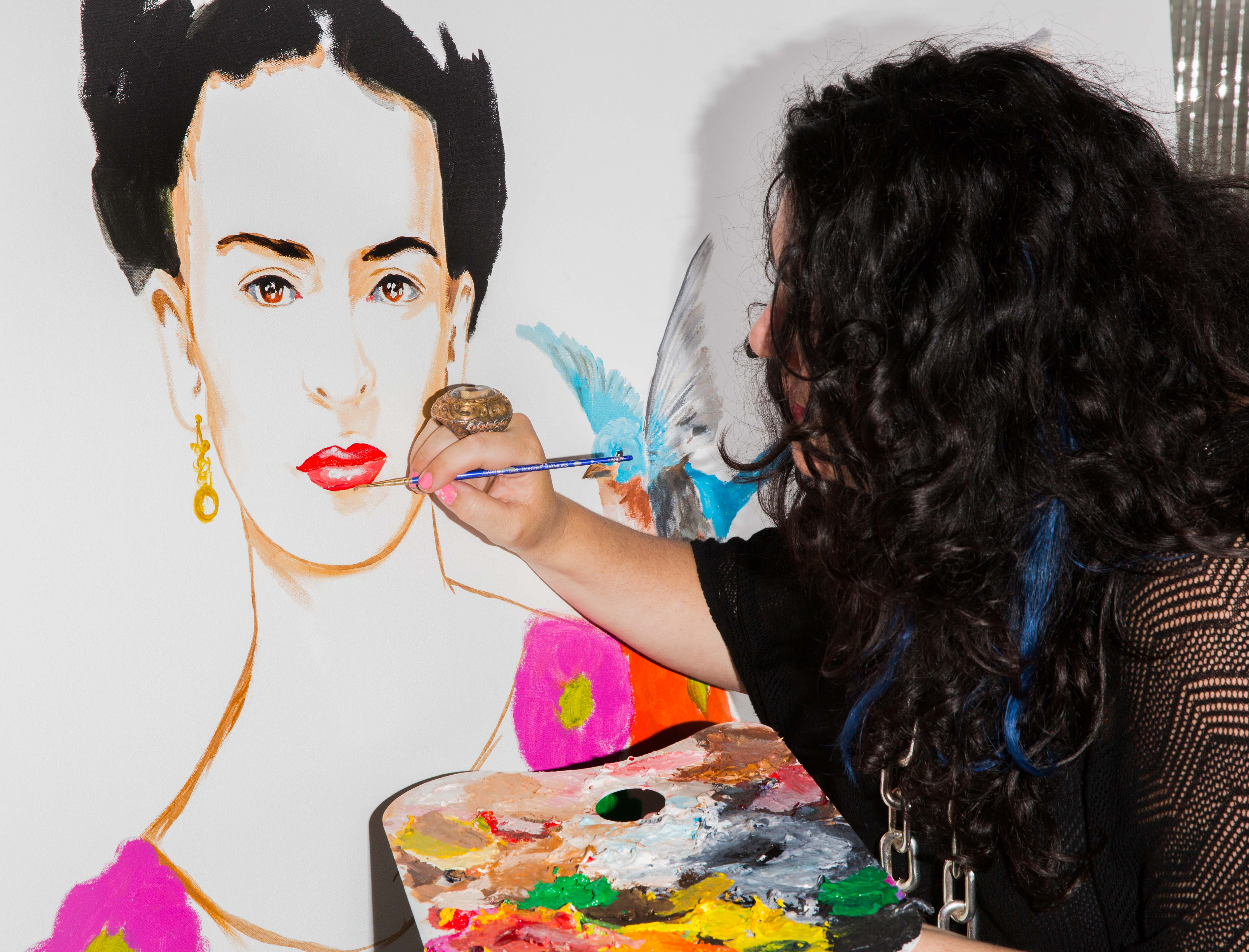 Photo of Ashley Longshore